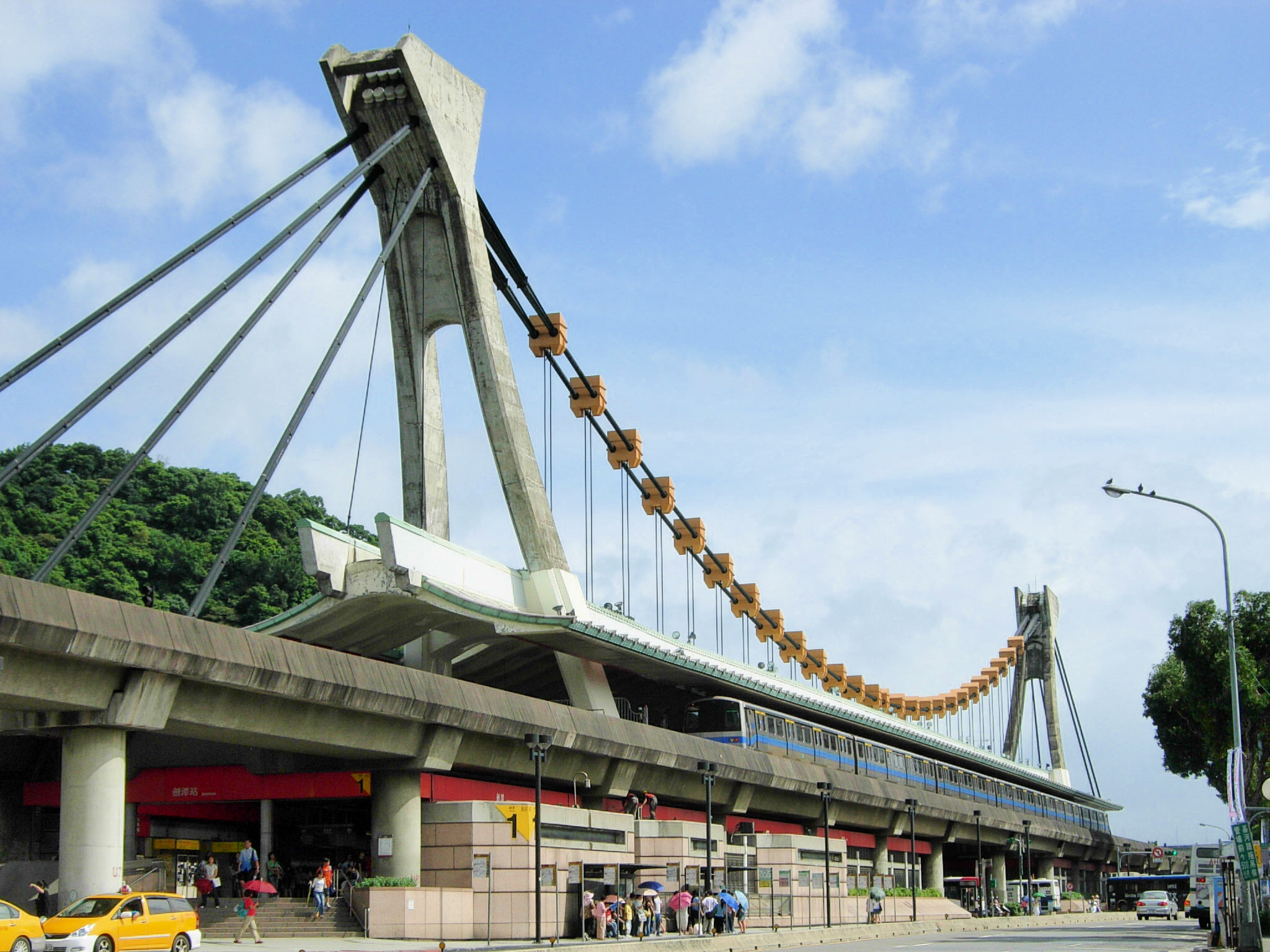 Taipei MRT Jiantan Station Bân-lâm-gú: Tâi-pak Tsia̍t-ūn Kiàm-tâm-tsām.